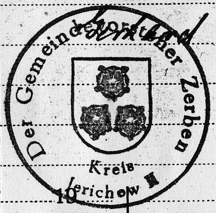 Seal of Zerben, Germany